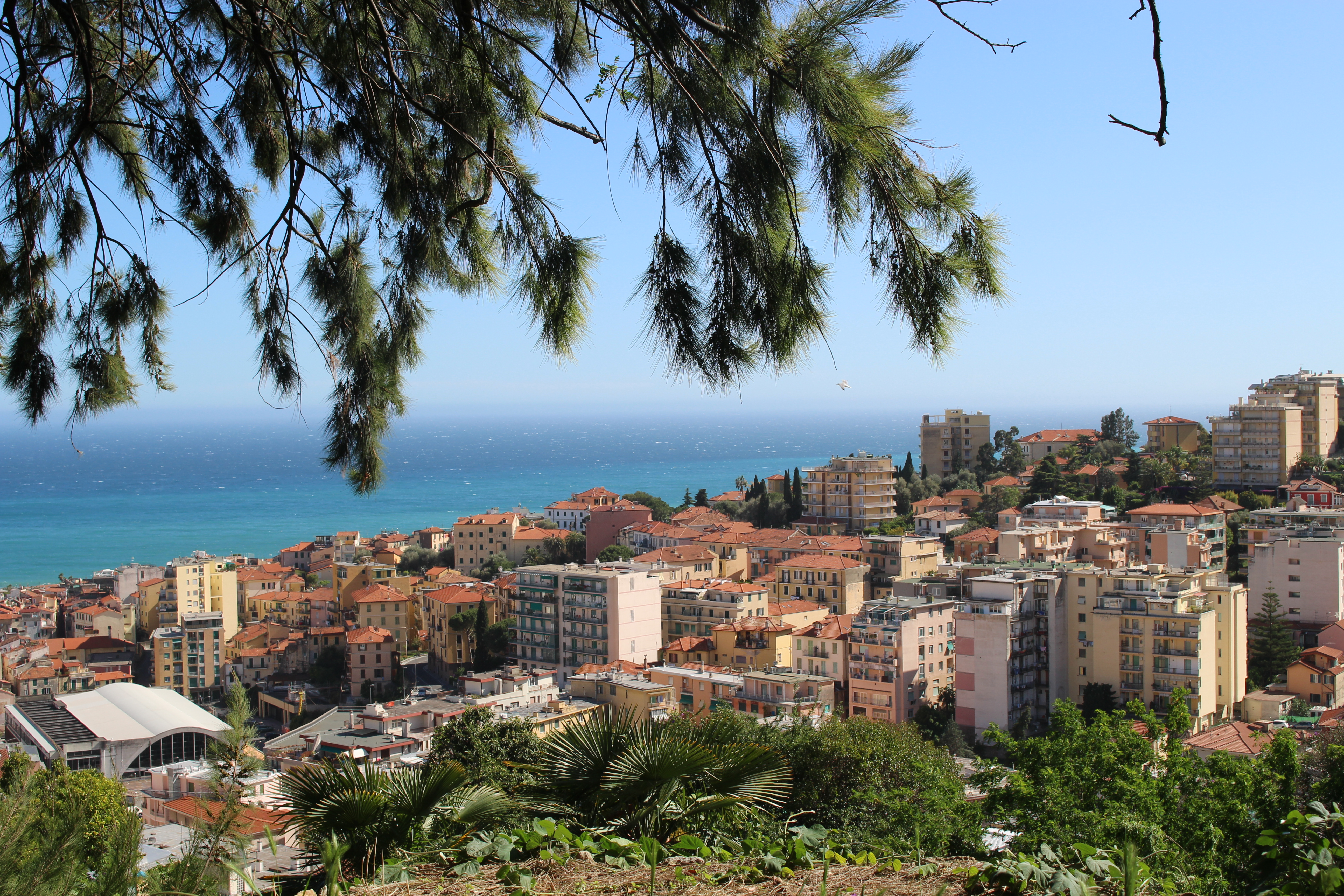 View on Sanremo from hillside